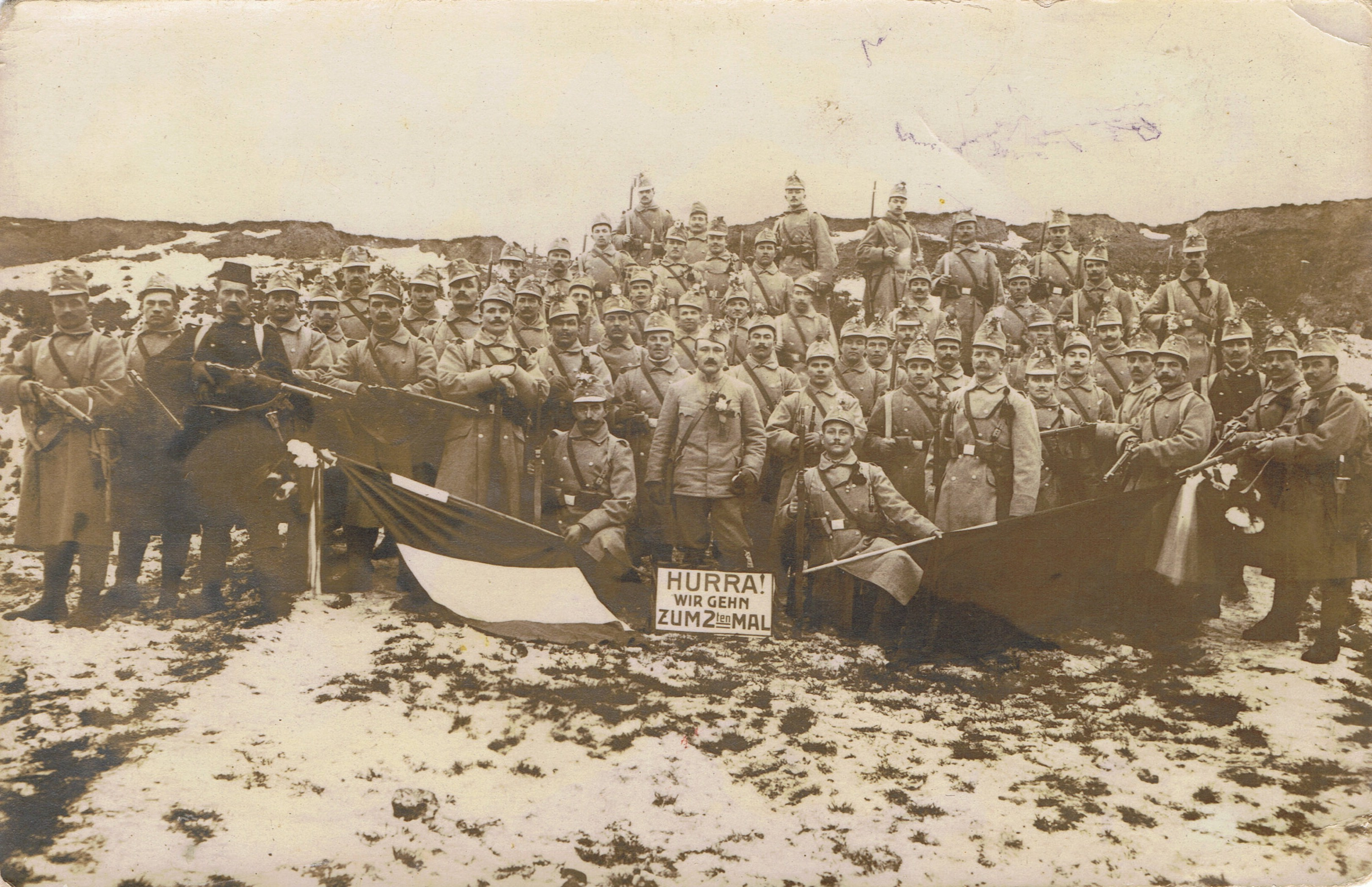 Scan of postcard of K. u. k. Infanterieregiment Frh. v. Salis Soglio Nr. 76 i. Ers. Kompagnie, c1914-18.